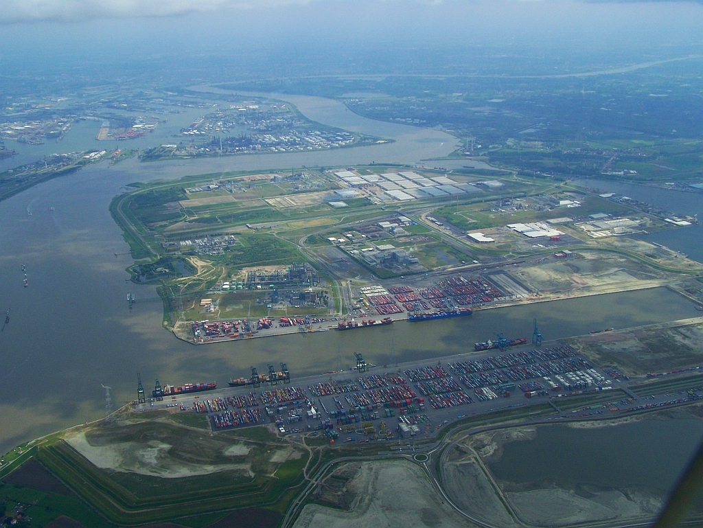 Deurganckdok, Antwerp